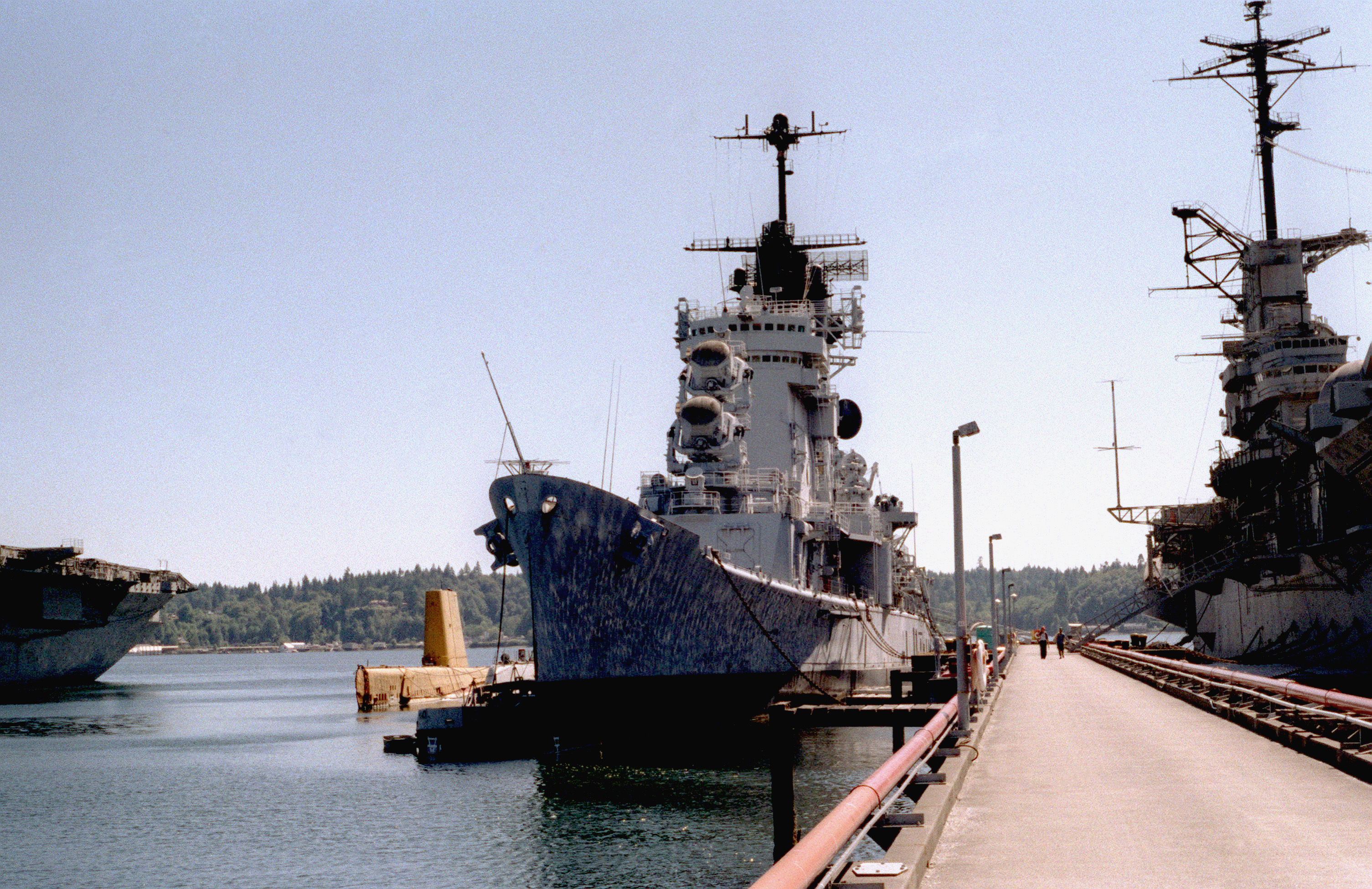 A port bow view of the U.S. Navy guided missile cruiser USS Chicago (CG-11) laid up at the Naval Inactive Ship Maintenance Facility at the Puget Sound Naval Shipyard, Washington (USA), 25 January 1990. To the left of Chicago is the submarine USS Menhaden (SS-377), another submarine and the aircraft carrier USS Oriskany (CV-34). To the right is USS Hornet (CVS-12).